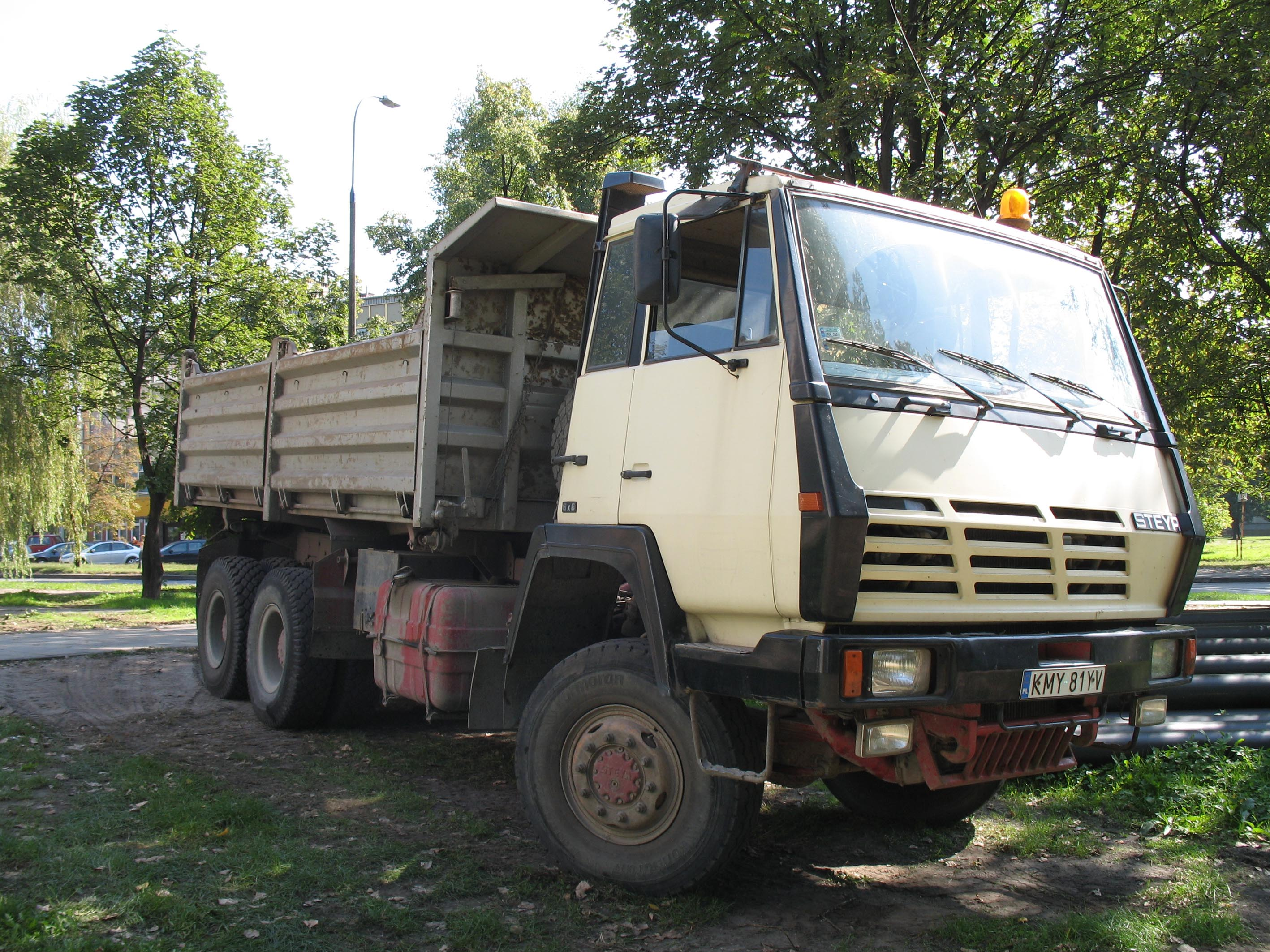 Steyr 6x6 dump truck in Kraków, Poland.